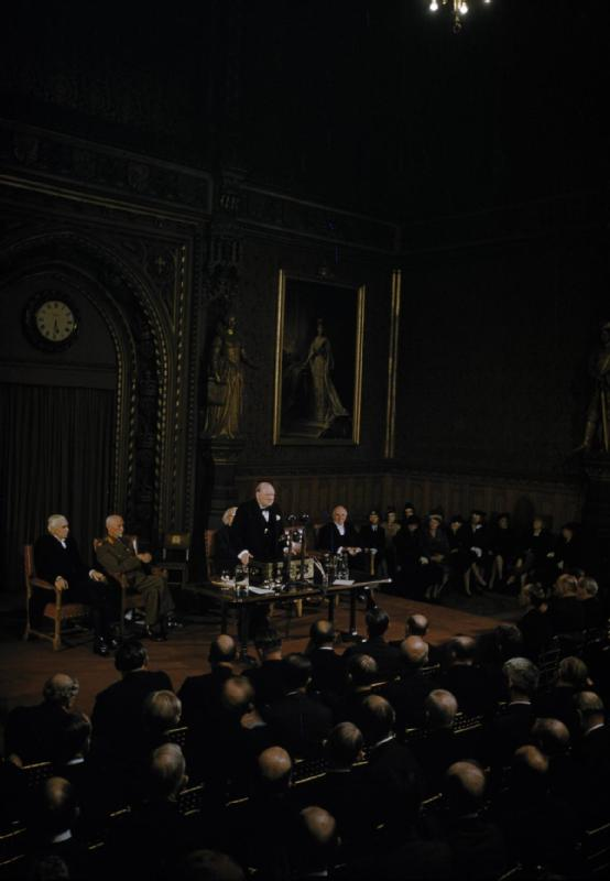 Visit of Field Marshal Smuts, Prime Minister of South Africa To the House of Commons, Westminster, London, 21 October 1942 The Prime Minister, Mr Winston Churchill, calls on the assembly in the House of Commons to acclaim the Prime Minister of South Africa, Field Marshal Smuts, after his address.